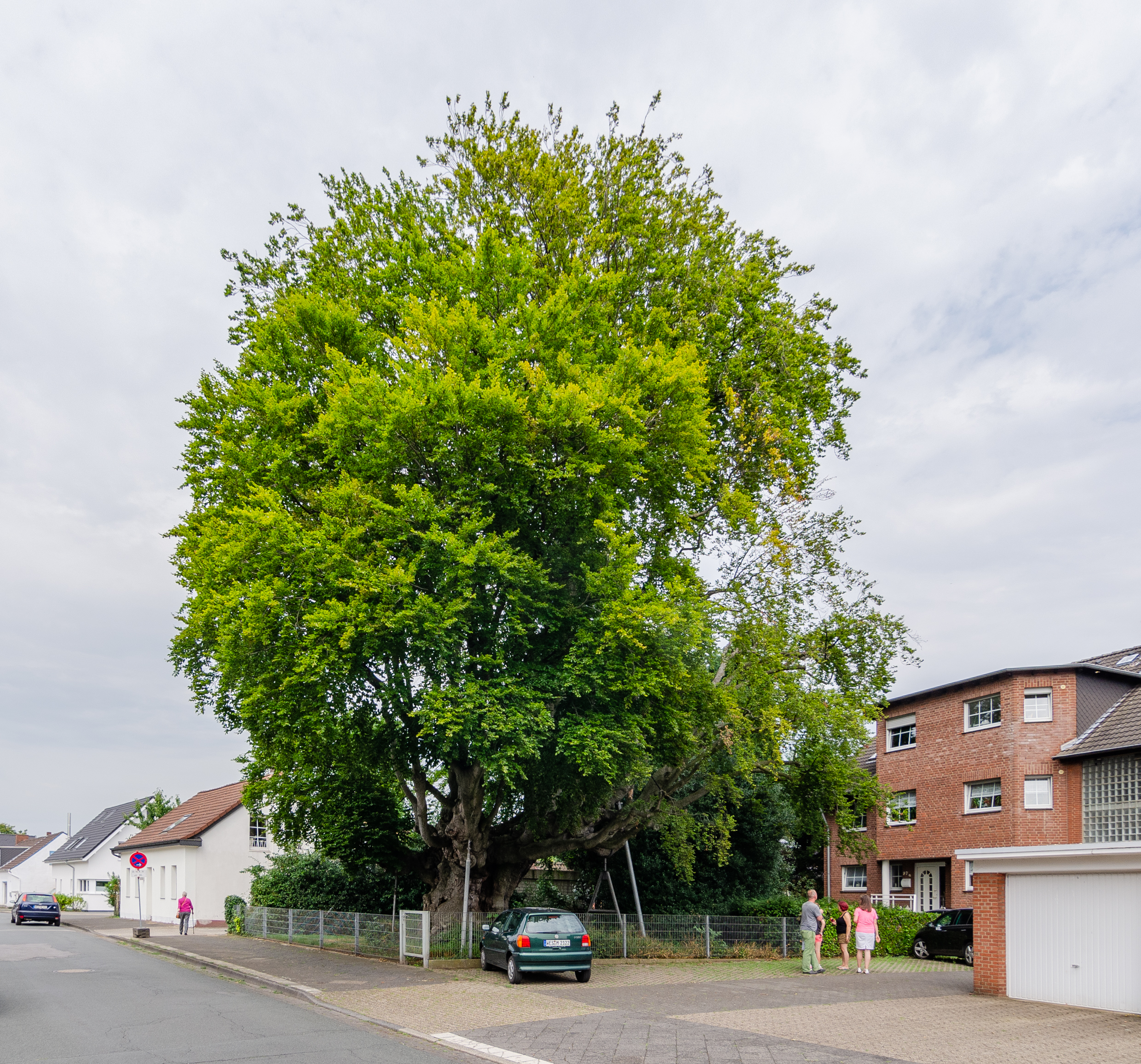 Moers (North Rhine-Westphalia, Germany) – district Schwafheim – natural monument “Keiser's Beech” one day before its felling